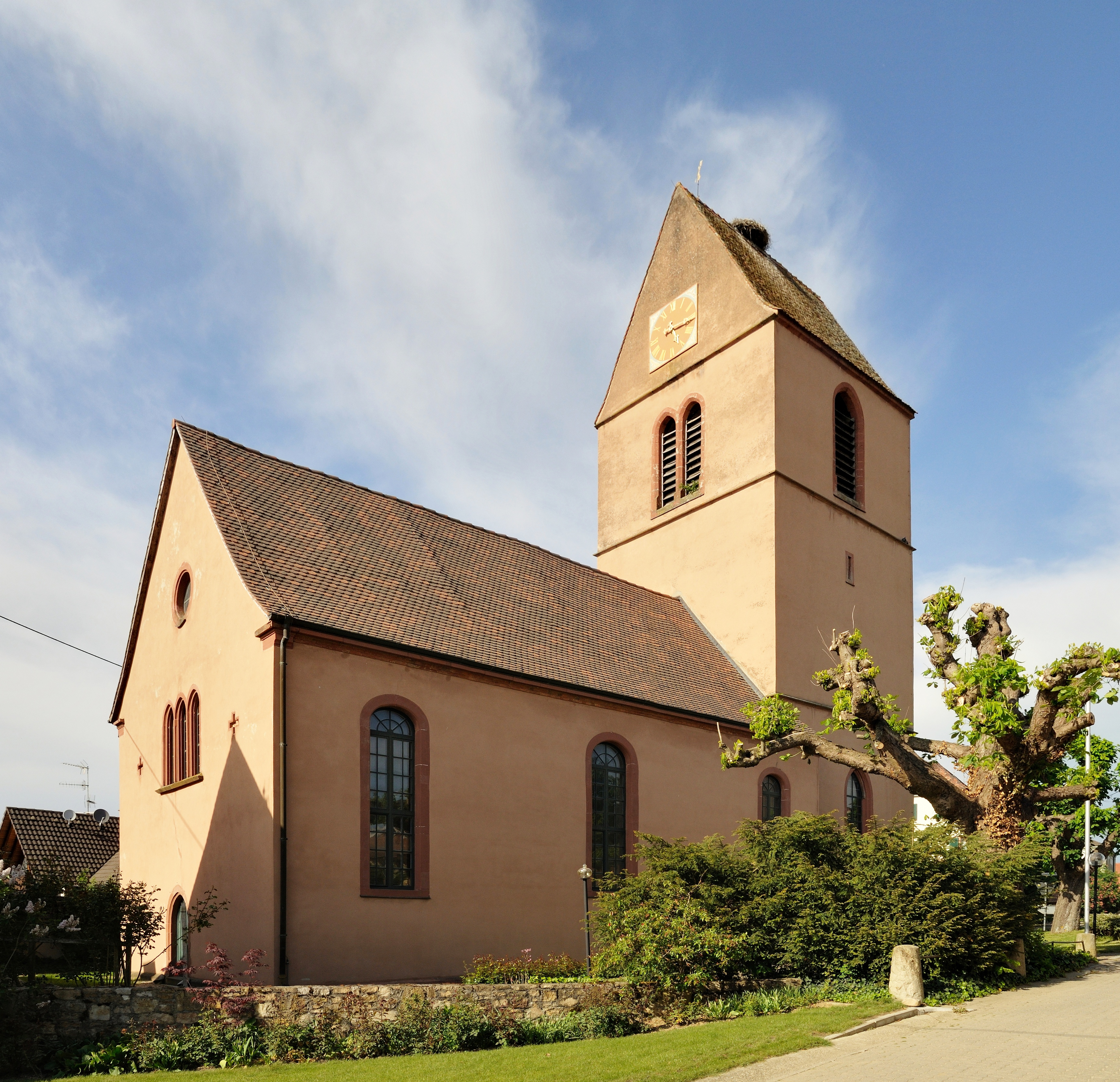 Egringen: Protestant Church